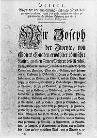 Front page of the Toleranzpatent of Emperor Joseph II.